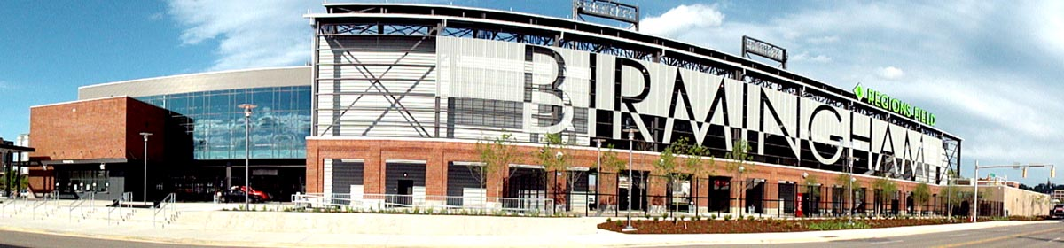 Western elevation of Regions Field along 14th Street South in Birmingham, Alabama, USA.